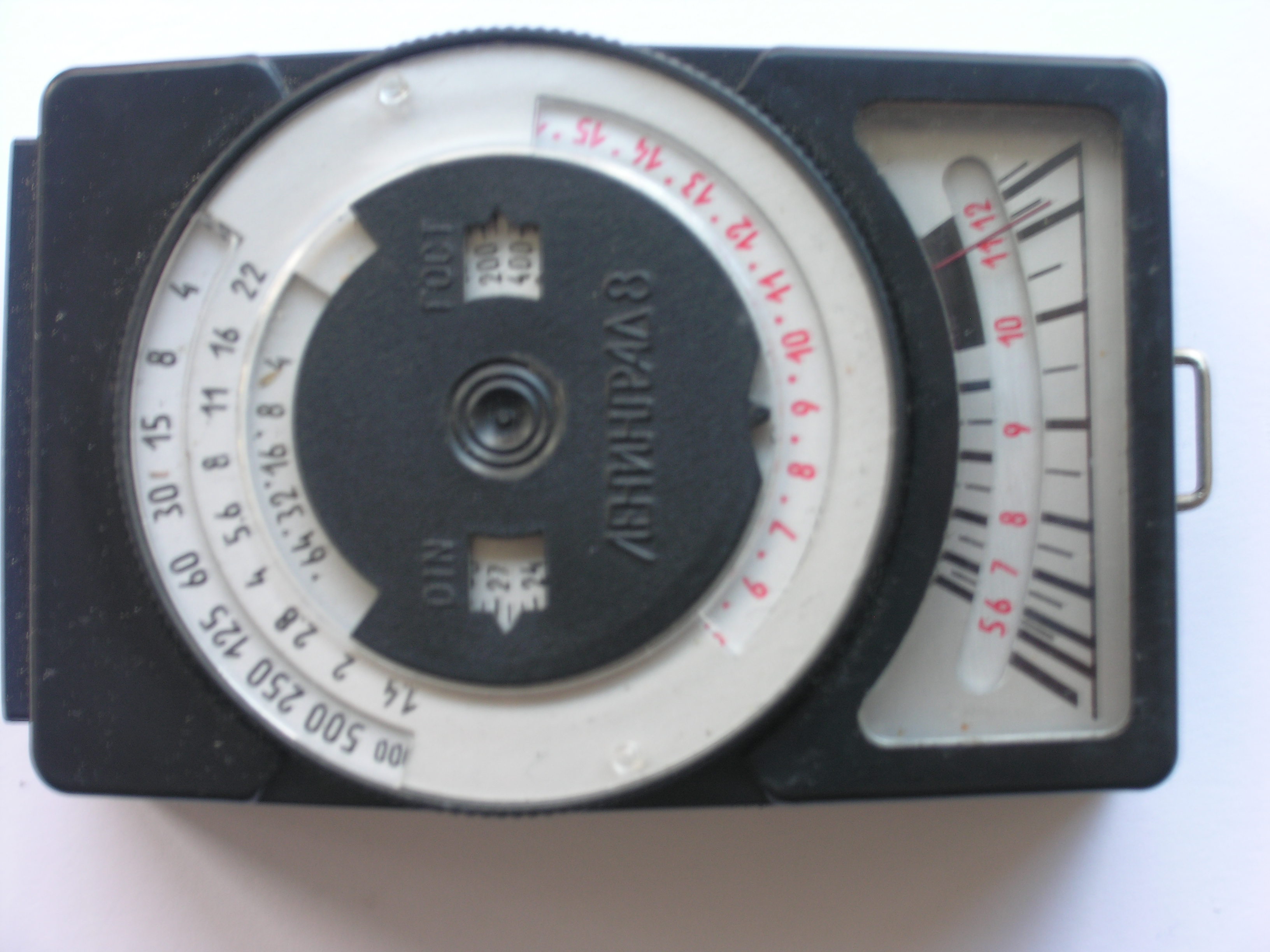 Light meter Leningrad 8